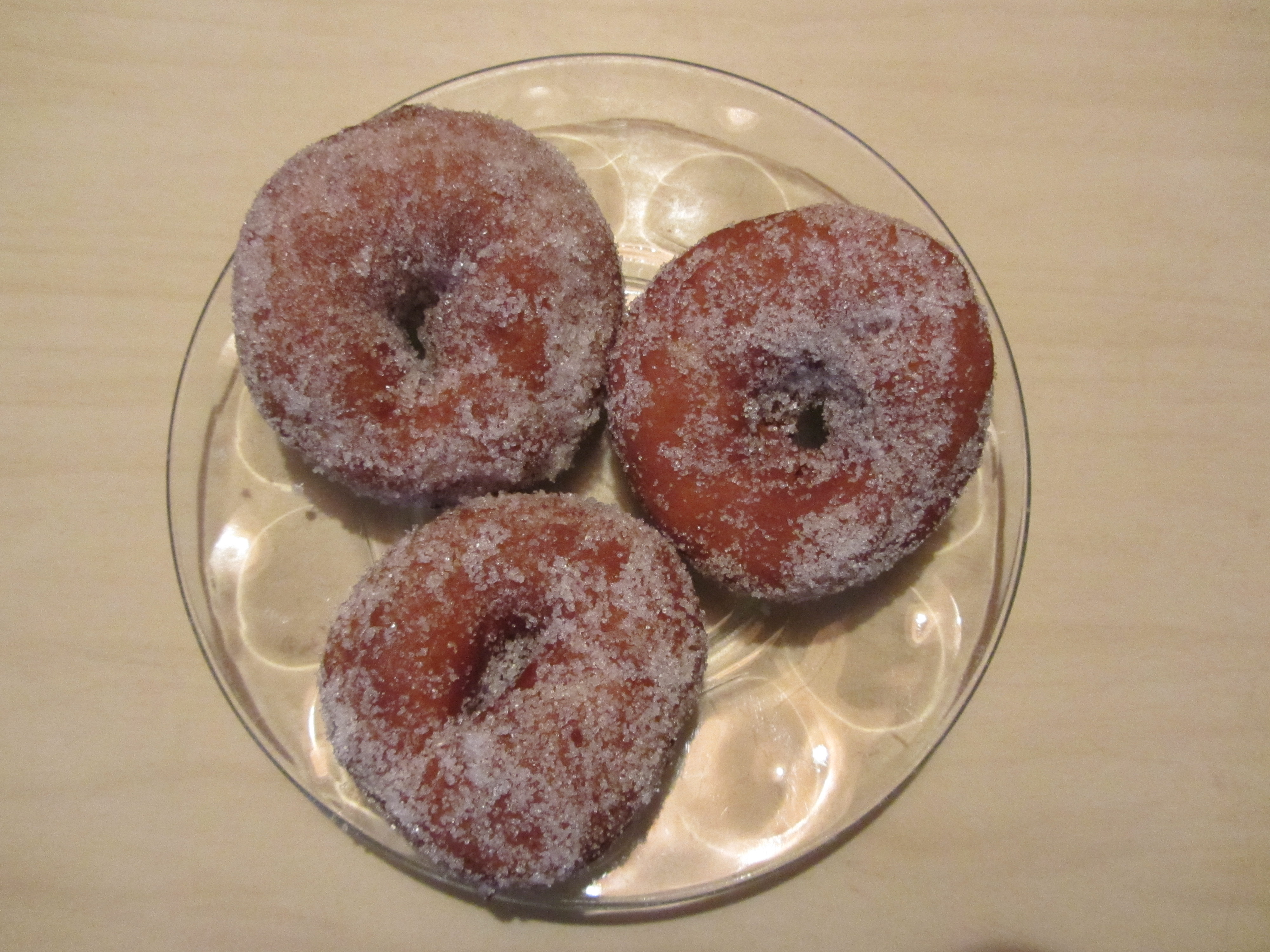 Finnish doughnuts